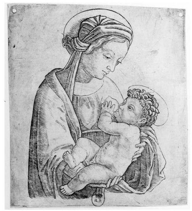 Andrea Zoan [?], Madonna del latte, 135 x 120 cm, BNF Ea 32 a rés. Cl. 88 C 136160 — after Leonardo, in the manner of Mantegna.